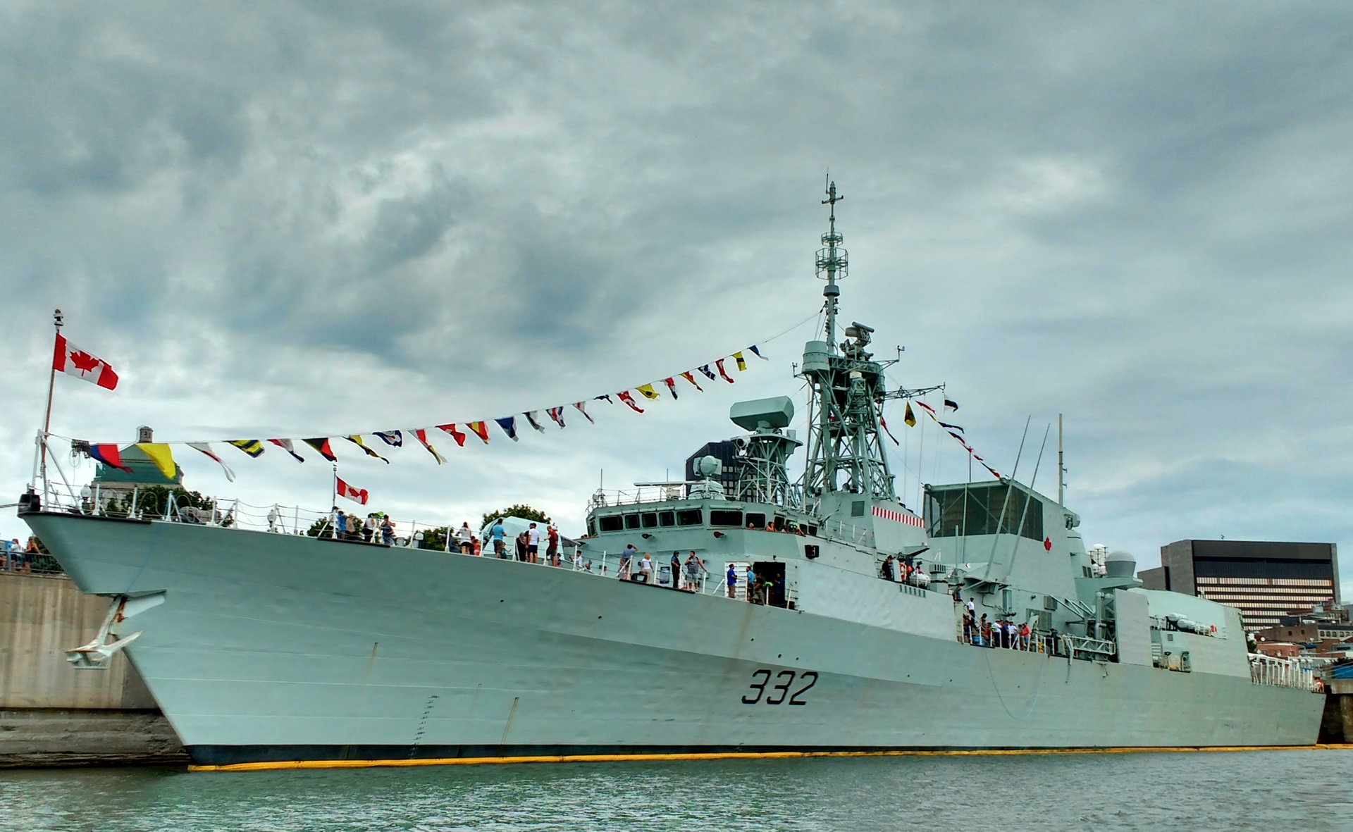 HMCS Ville de Québec in Montreal